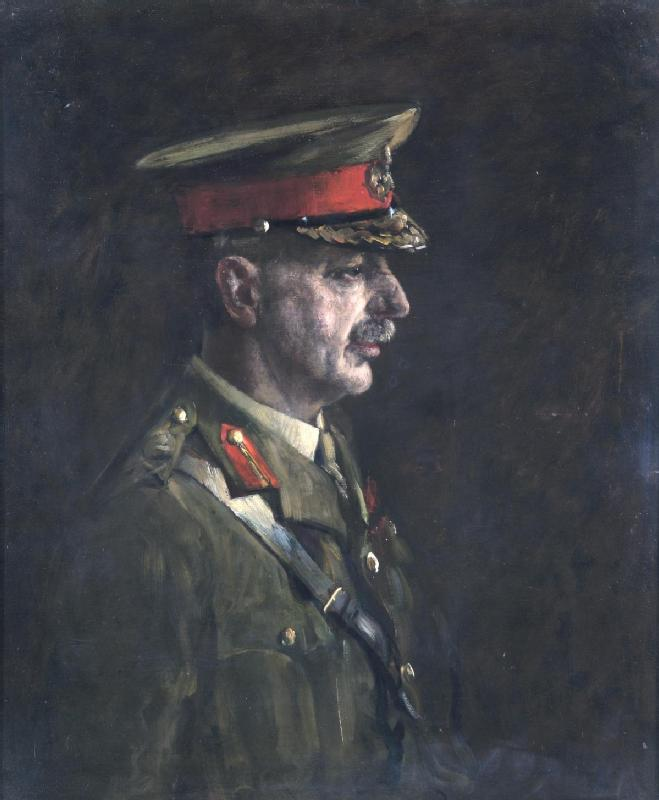 Portrait of General Sir William Furse (1865–1953).